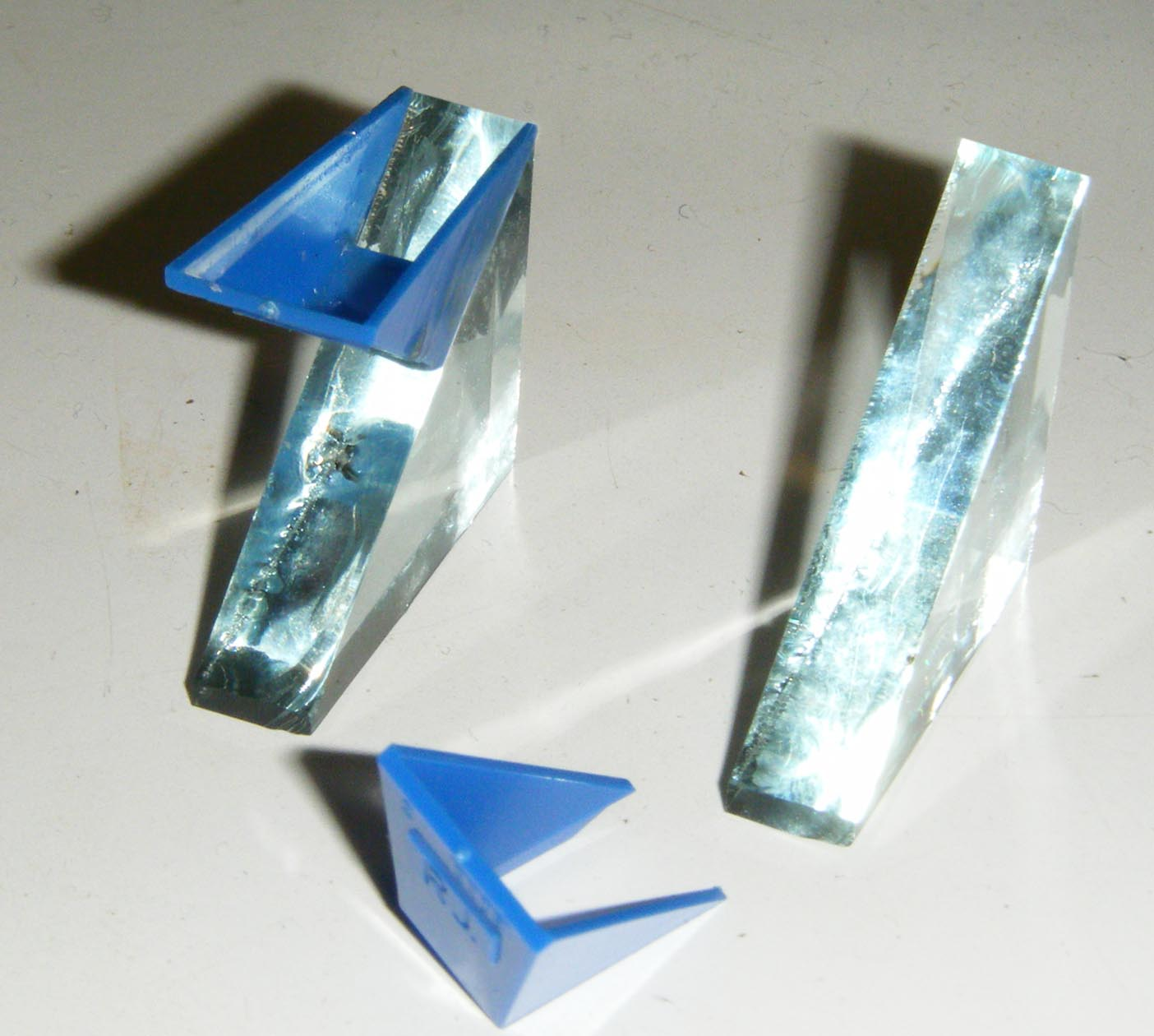 glass blades for ultramicrotome 2